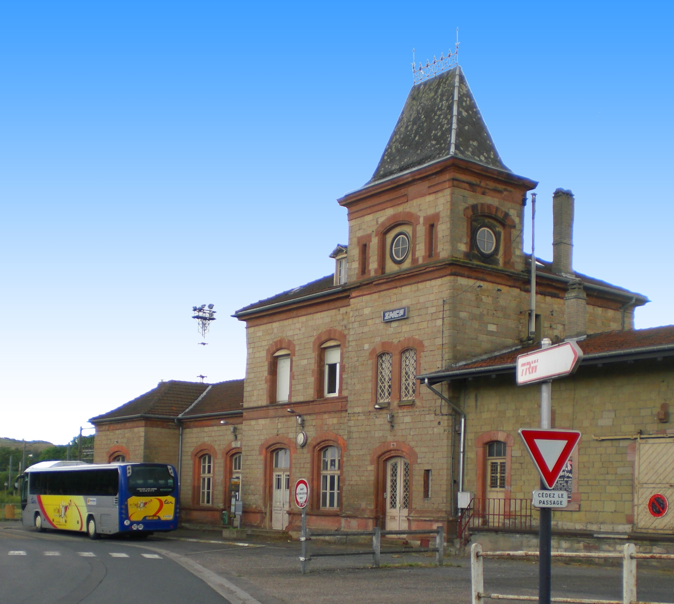 Railway station, road-side, at Bouzonville, France